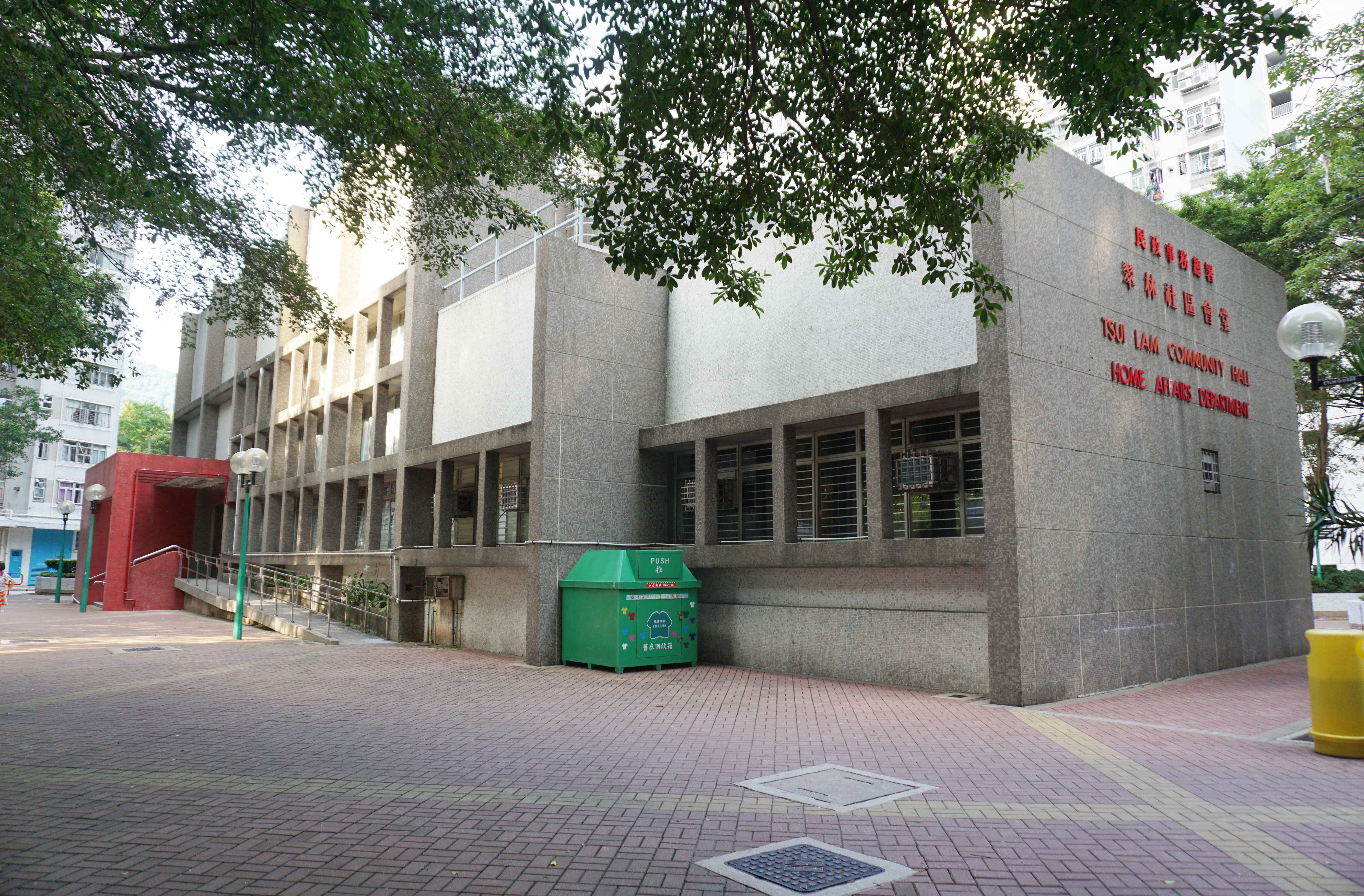 Tsui Lam Estate in Tseung Kwan O, Hong Kong.